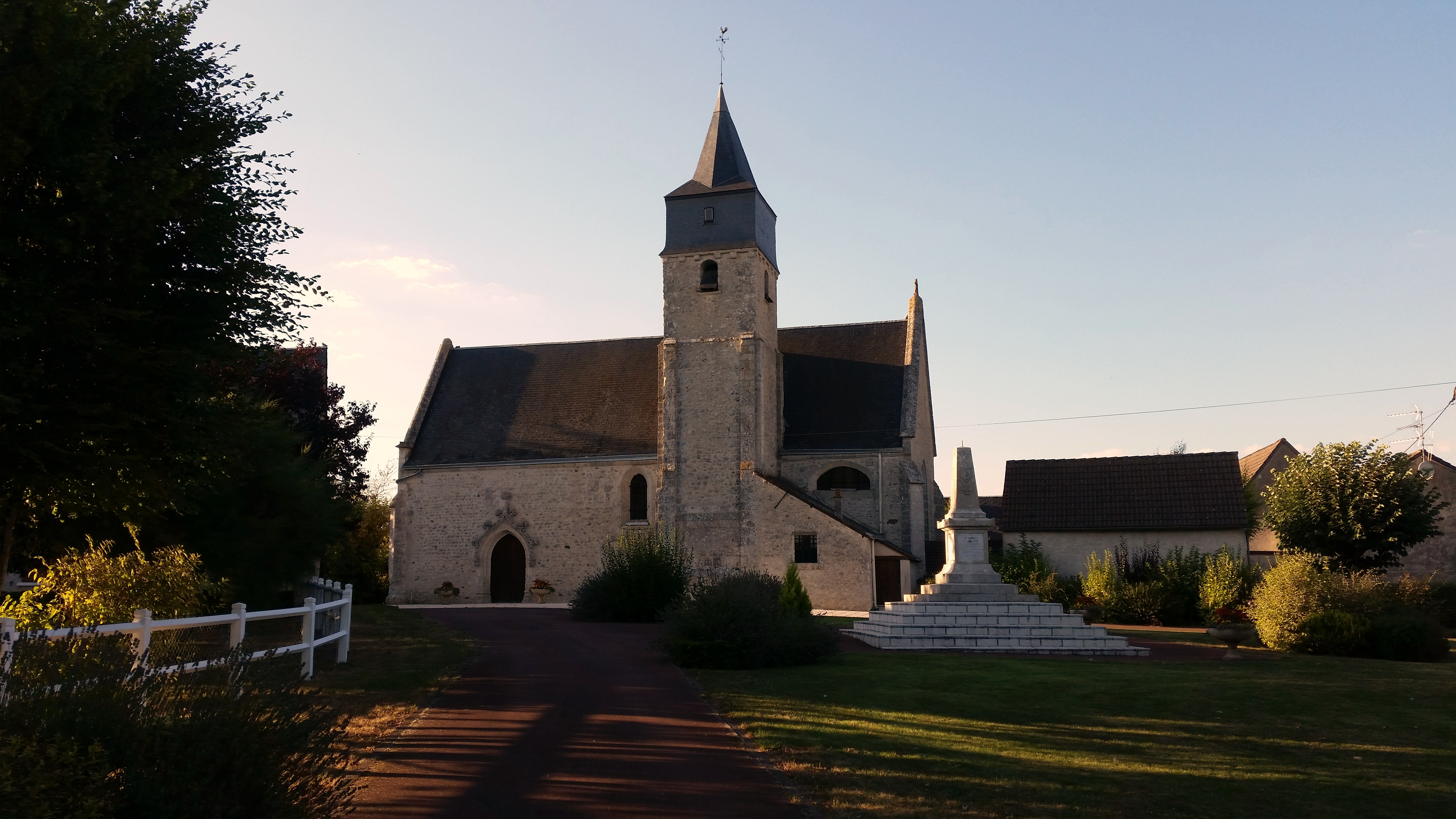 The church and the war memorial of Jallans, Eure-et-Loir, France.